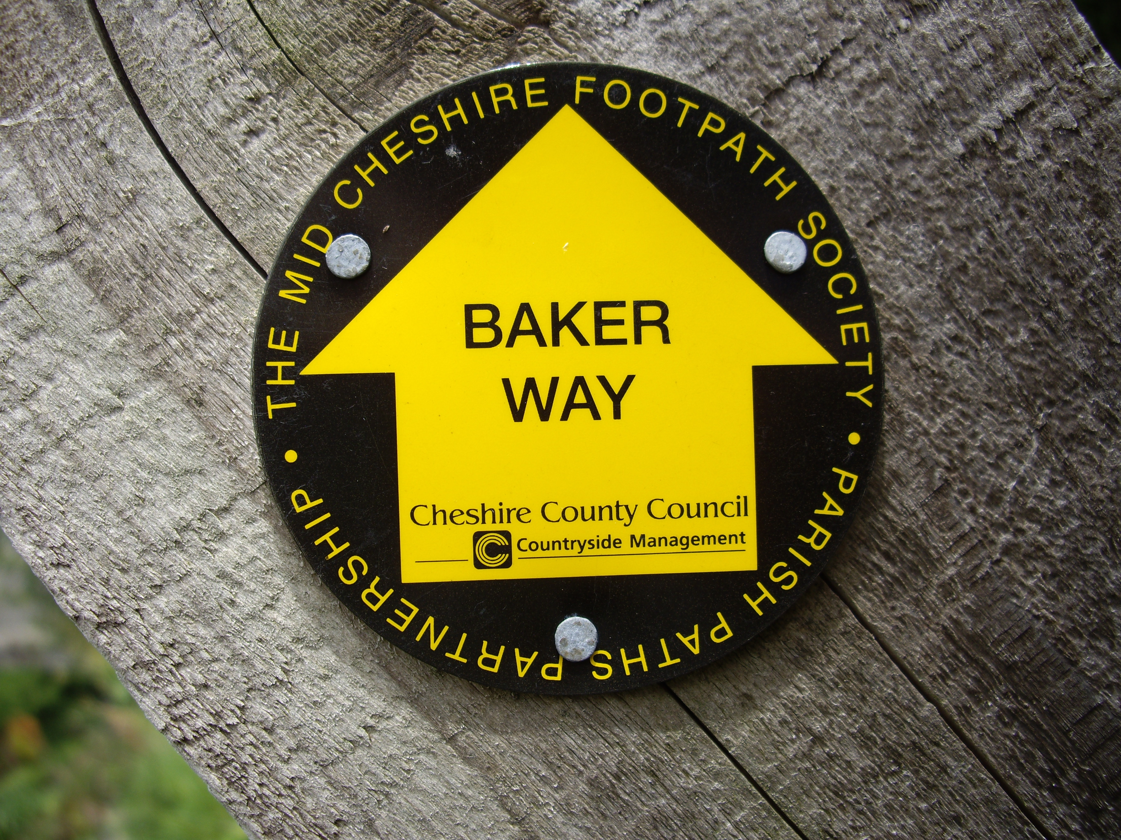 Author and Source: G. Brawn Summary Author and Source: G. Brawn